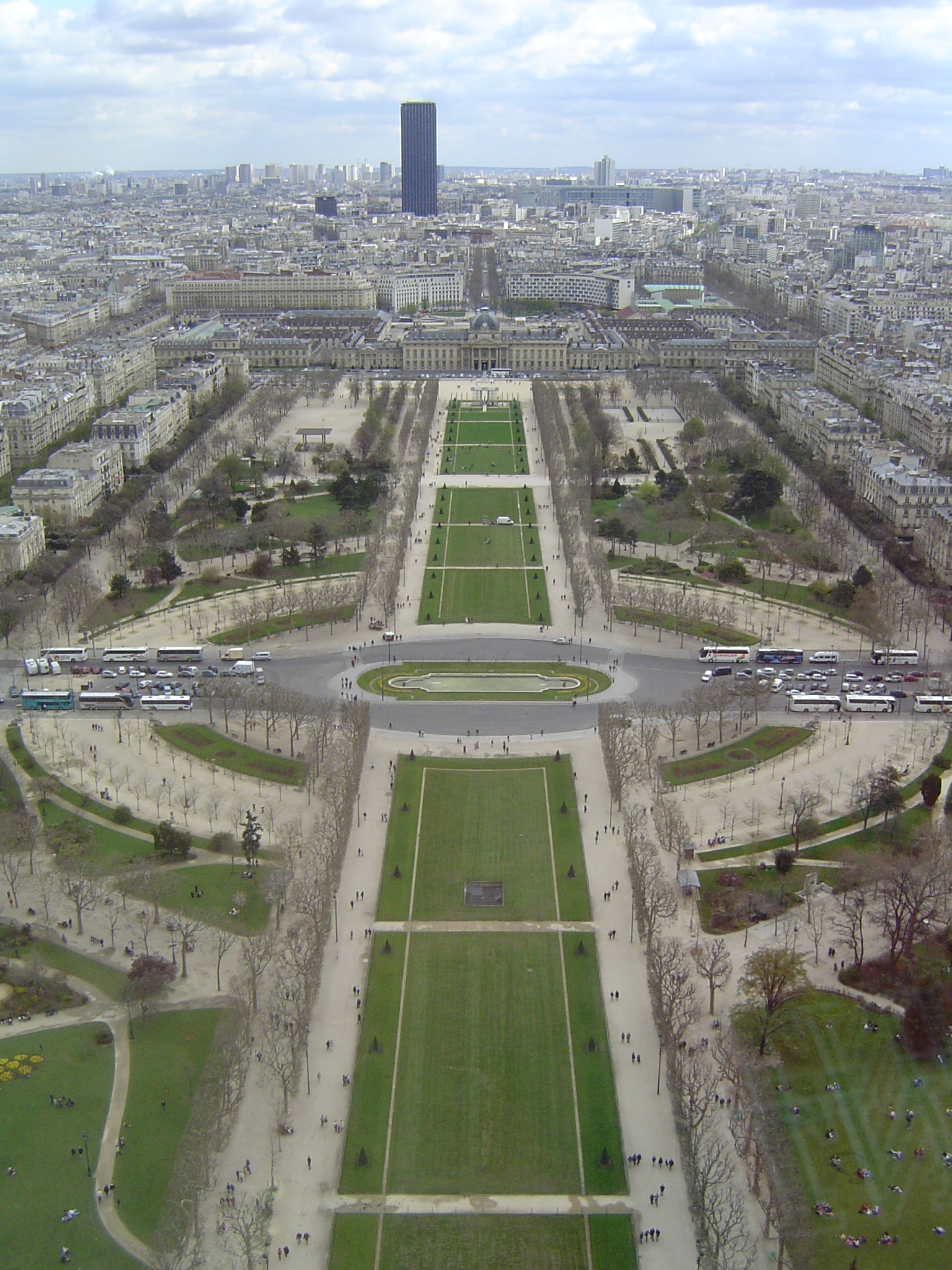 Click here to see where this photo was taken. By courtesy of BeeLoop SL (the Mapware & Mobility Solutions Company).